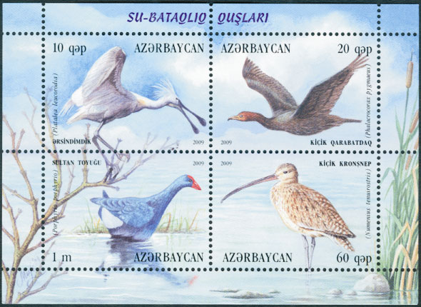 Marsh waterfowls.